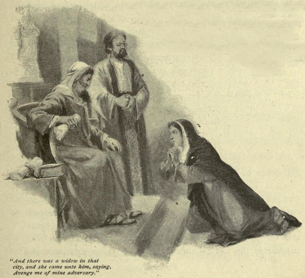 "And there was a widow in that city, and she came unto him saying "Avenge me of mine adversary." Anonymous artists by Pacific Press Publishing Company, 1900